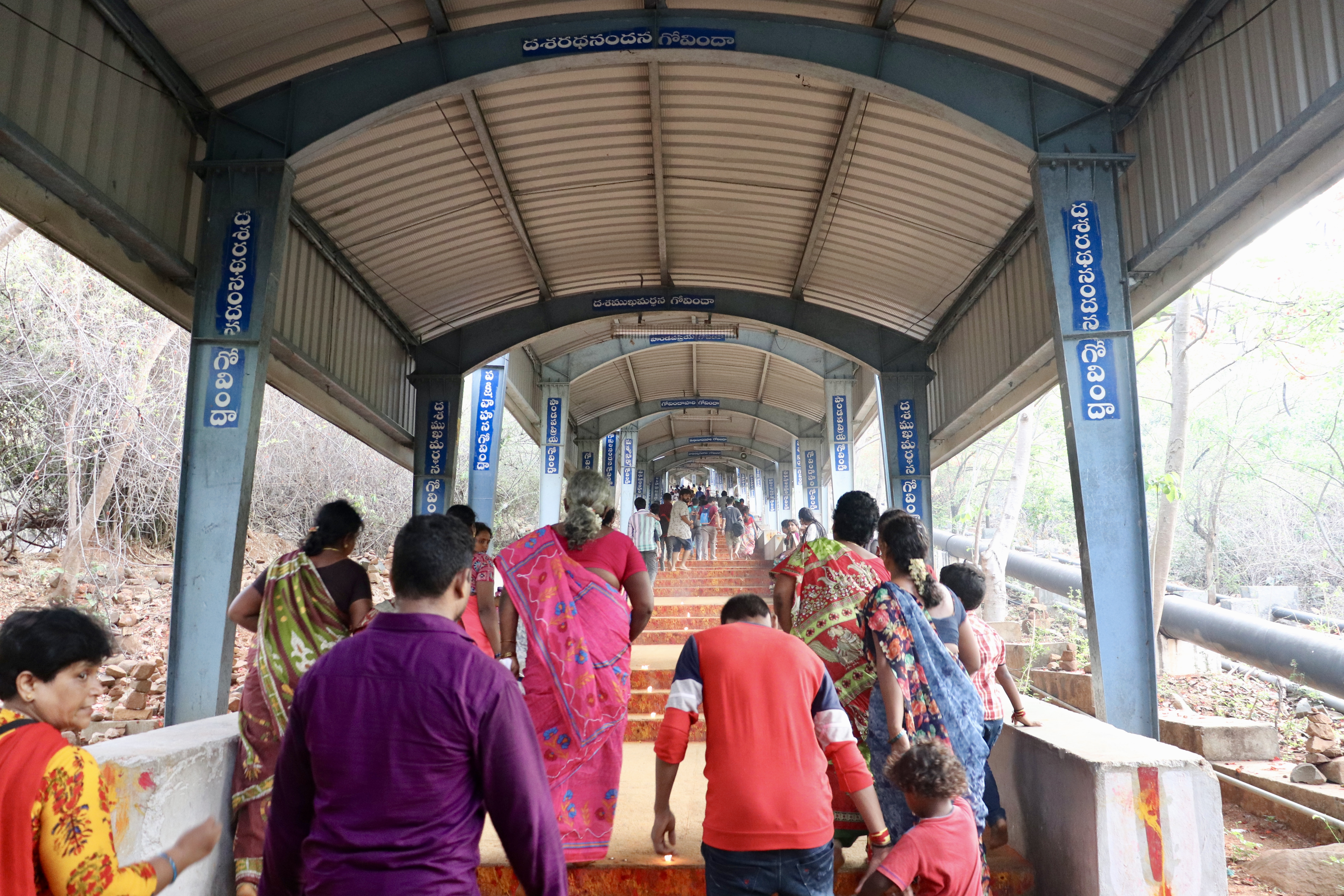 Srivari Padalu steps (May 2019)